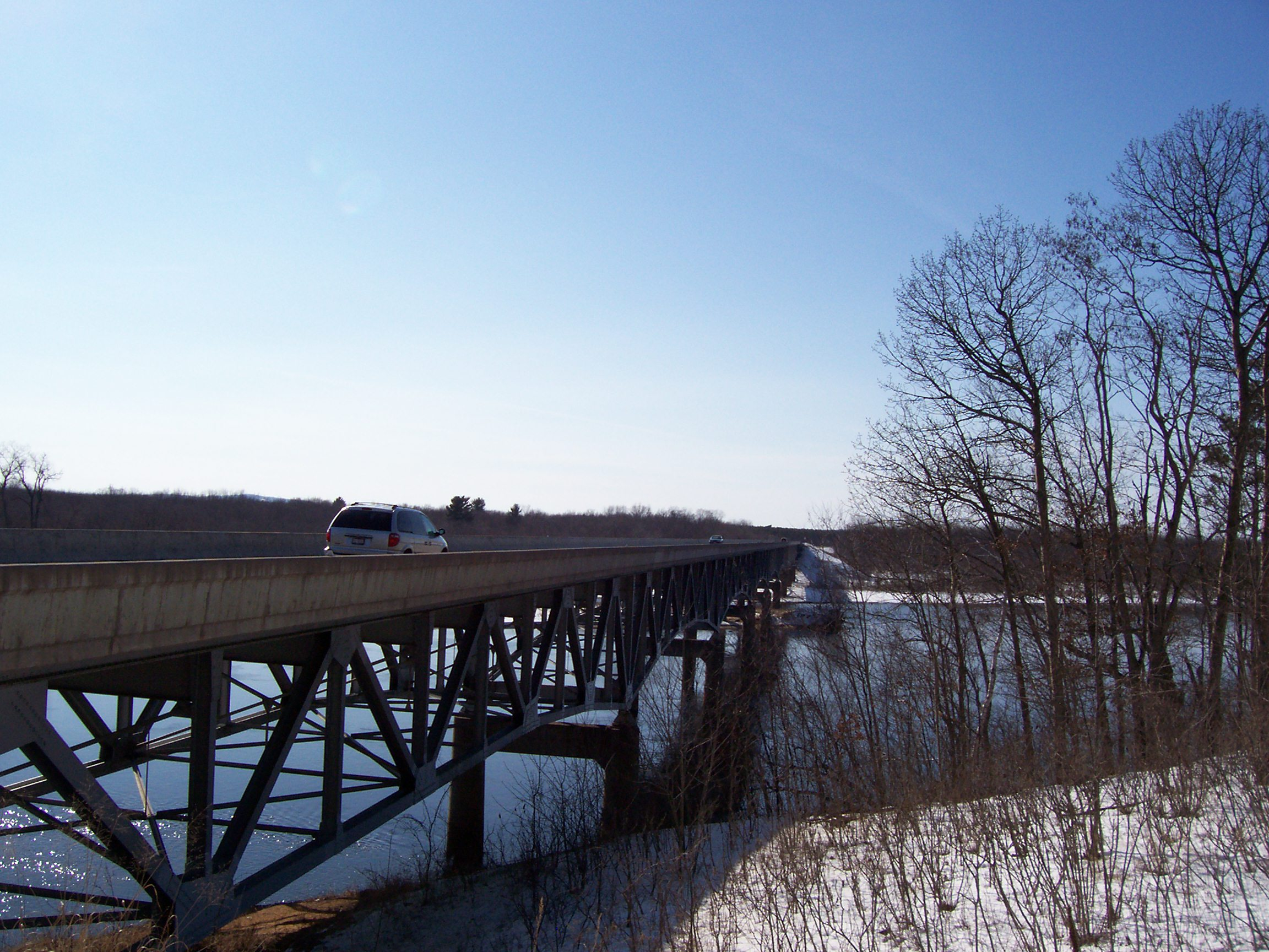 The Wisconsin Highway 82 bridge over the Wisconsin River near Mauston, Wisconsin, USA. Taken March 11, 2007 by myself.